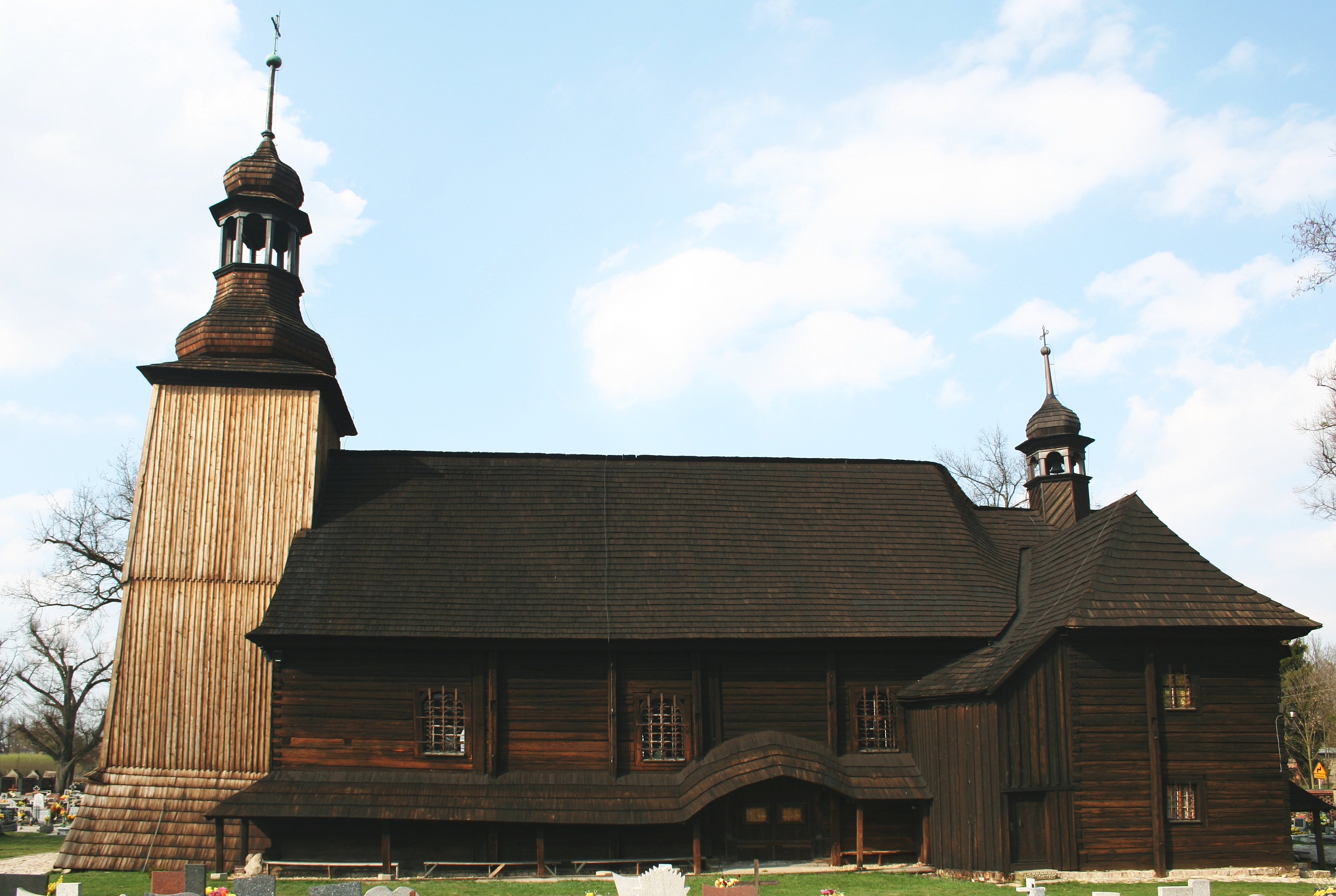 Holy Trinity church in Koszęcin, Poland